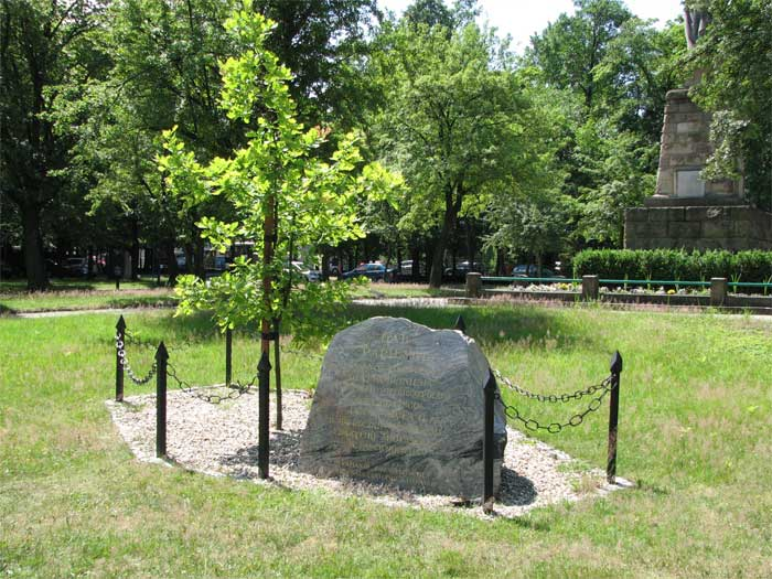 Papal Oak in the Klasztorny Square, Katowice, Poland